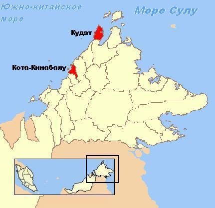 Showing Kudat and Kota Kinabalu cities on map of Sabah, Malaysia (in Russian language)